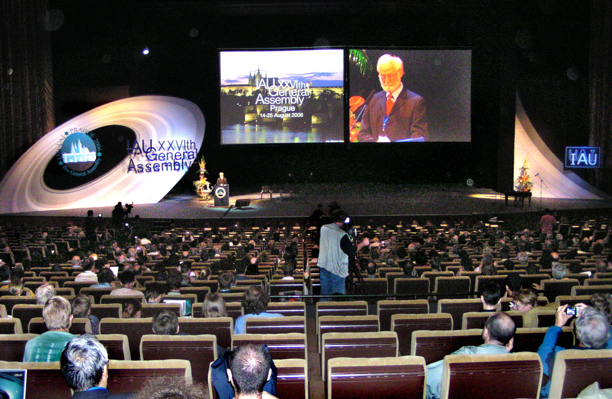 Opening ceremony of the IAU 26th General Assembly, Prague